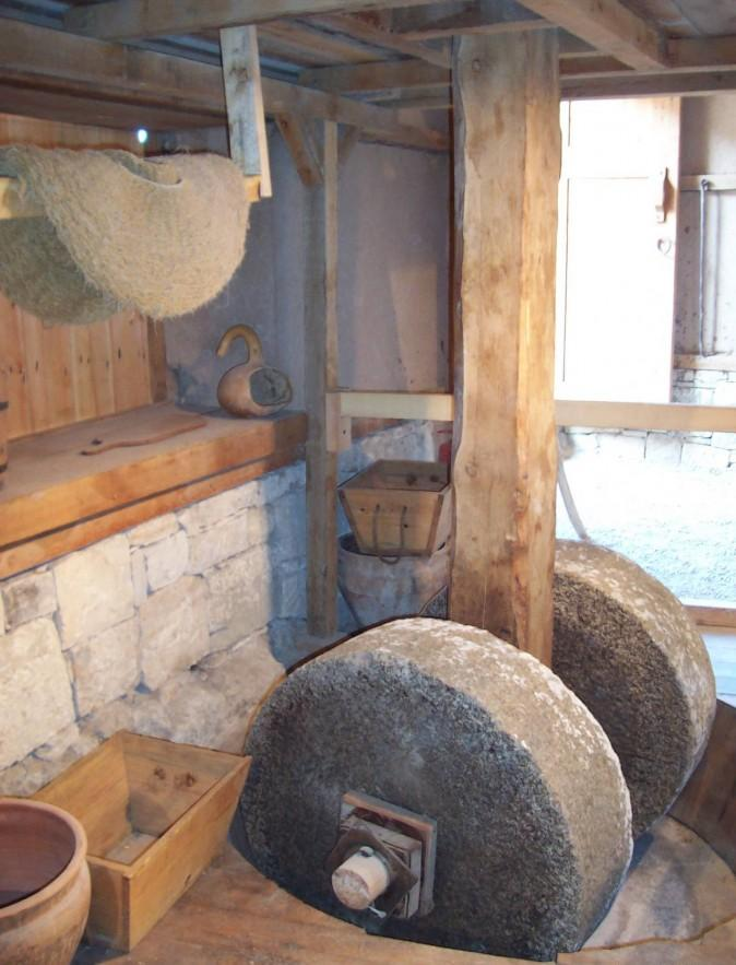 Olive oil production in Klazomenai, an ancient city of Ionia( now, near Urla, Izmir, Turkey)